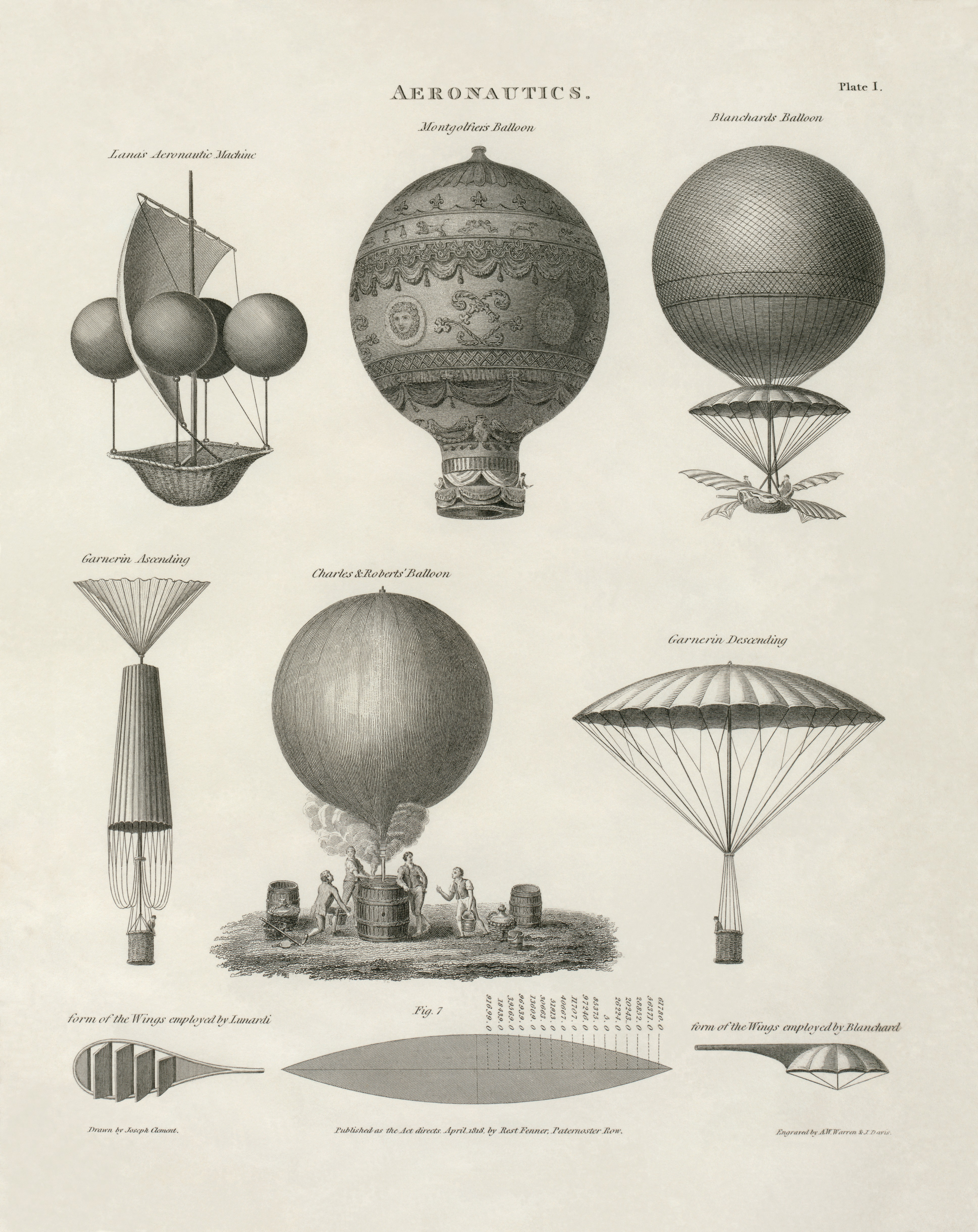 Technical illustration shows early balloon designs: "Lana's aeronautic machine," "Montgolfiers' balloon," "Blanchard's balloon," "Garnerin ascending [and] descending" in his parachute, the "Charles & Roberts' balloon" being inflated, the "form of the wings employed by Lunardi," and the "form of the wings employed by Blanchard."